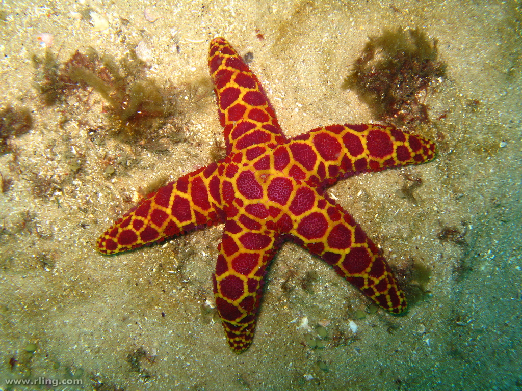 Mosaic Sea Star (Plectaster decanus). Inscription Pt, Botany Bay, NSW